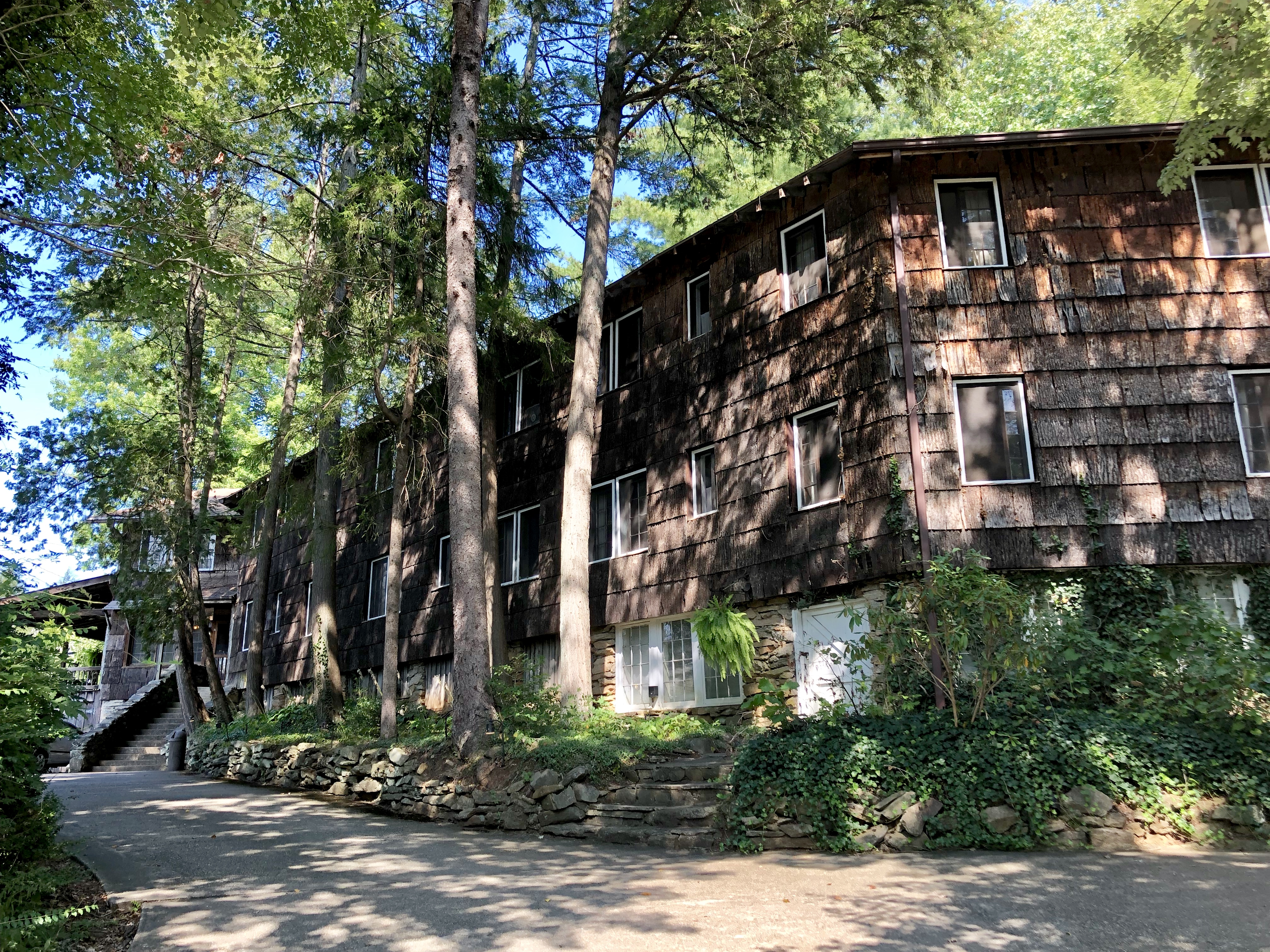 This is the Fryemont Inn, located on Fryemont Street in Bryson City, North Carolina. The inn was built by the Frye family in 1923 in a rustic style, and is among the best-preserved structures of its type in the region. The inn sits adjacent to the Frye-Randolph House, constructed initially in 1895. The house and inn were listed on the National Register of Historic Places in 1983.